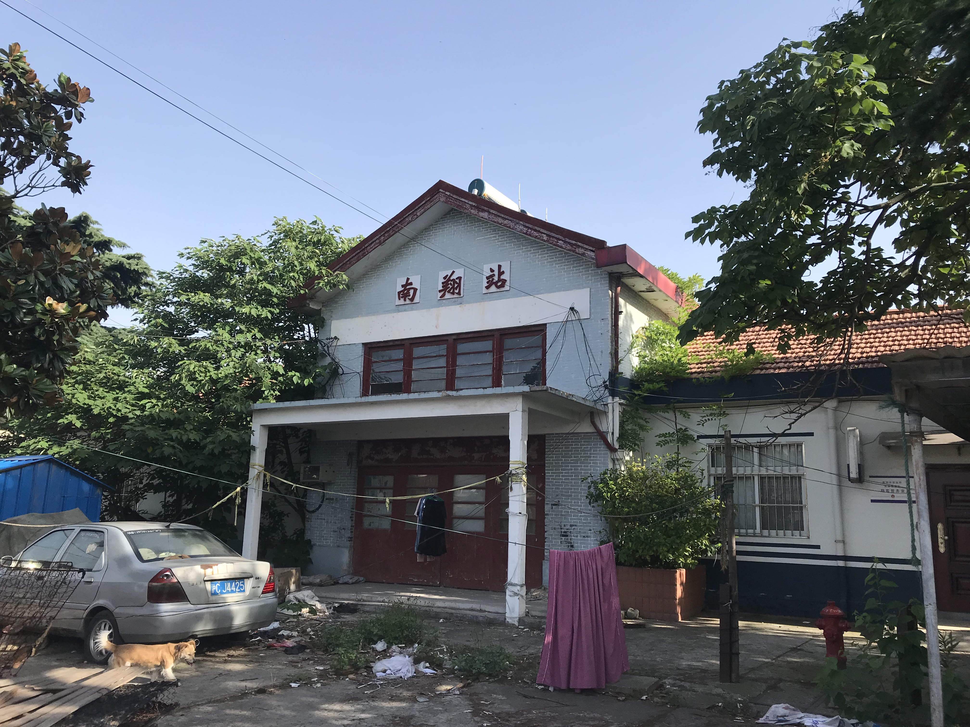 201805 Former Passenger Building of Nanxiang Station. It is full of garbage in its front now.